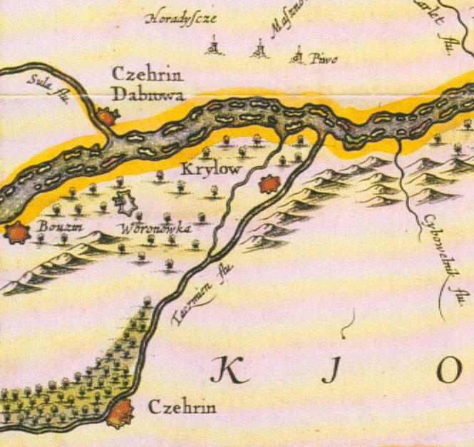 One piece Kiev Voivodeship district map. Polish Czehryń, ger. Tschehrin. [in] Tractus BORYSTHENIS Vulgo DNIEPR at NIEPR dicti, a KIOVIA as Urbum OCZAKOW ubi in PONTUM EUXINUM se exonerat. by Jan Jansson, 1663, Amsterdam.